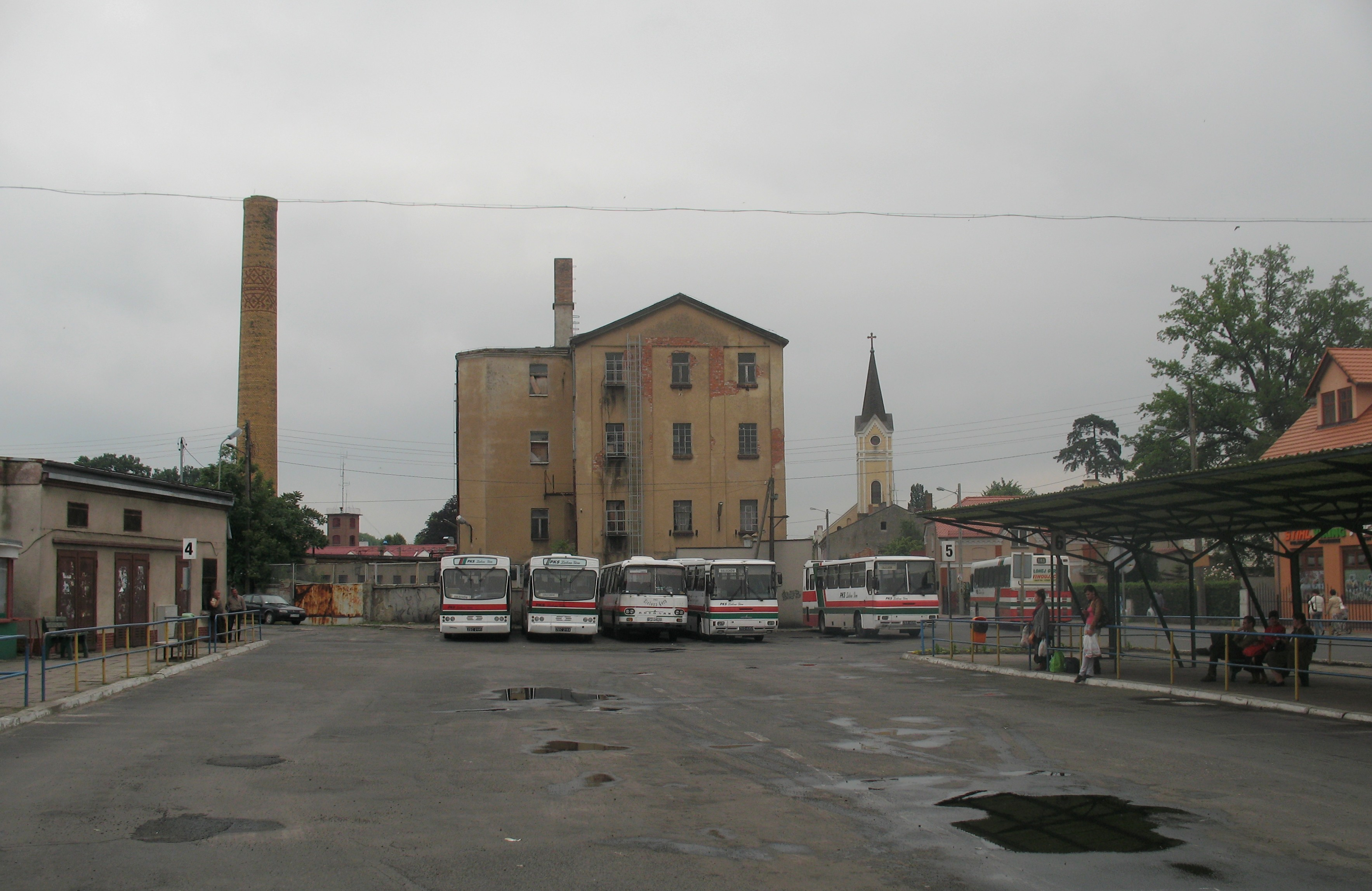 Bus station in Sulechów, Lubusz Voivodeship, western Poland. From left to right buses: Jelcz 120M (built 1995, #Z50571), Jelcz 120M (built 1995, #Z50572), Autosan H9, Autosan H10-10.02 (built 1997, #Z70016) and Autosan H10-10 from PKS Zielona Góra.